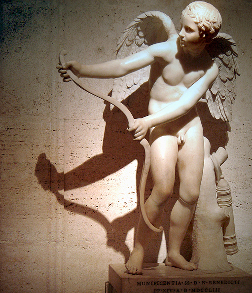 Amor stringing his bow, Roman copy after Greek original by Lysippos.